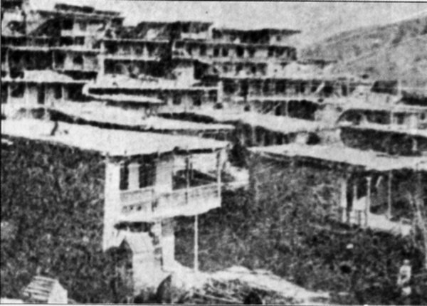 Village Uskut Crimea. 1920